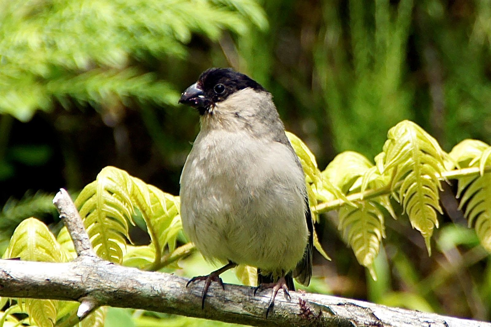 Azores Bullfinch (Pyrrhula murina), Pico da Vara, São Miguel, Azores. Cropped from original.